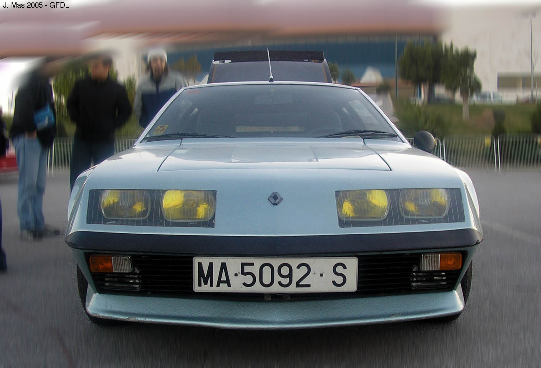 Description: Renault Alpine A310 Source: Own photo, 2005 Photographer: Picture taken by Usuario:Barahonasoria (spanish wikipedia)